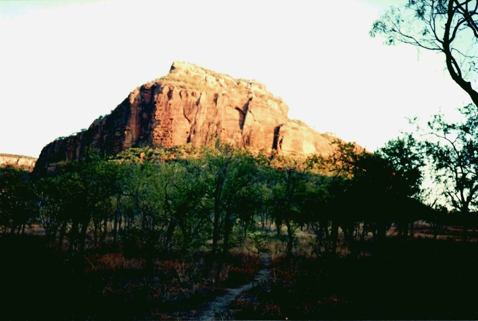 Photo of Ngarrabullgan from the north, taken during a visit in 1991